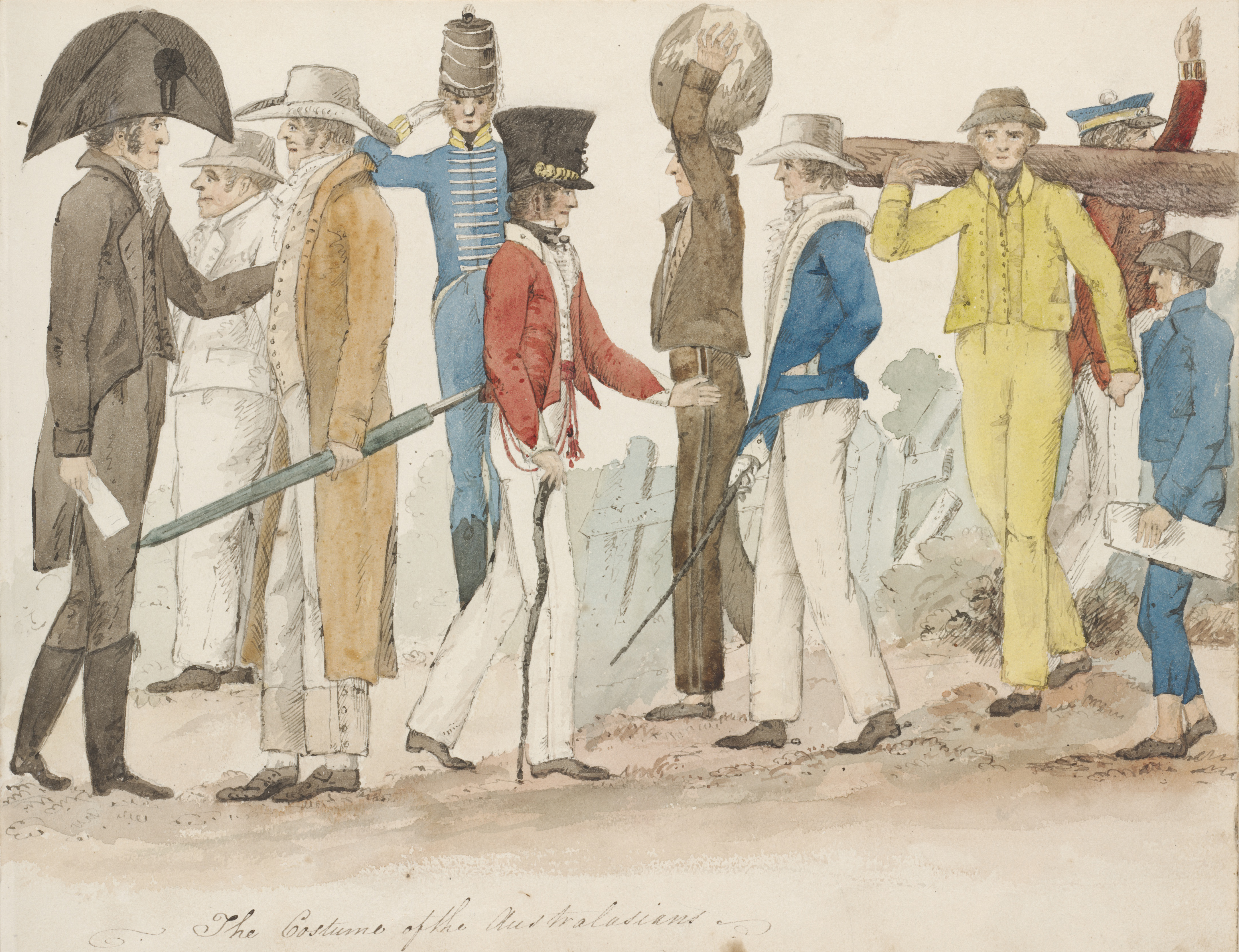 The costume of the Australasians, New South Wales Sketchbook: Sea Voyage, Sydney, Illawarra, Newcastle, Morpeth, c.1825, Edward Charles Close, State Library of New South Wales, SAFE/PXA 1187.